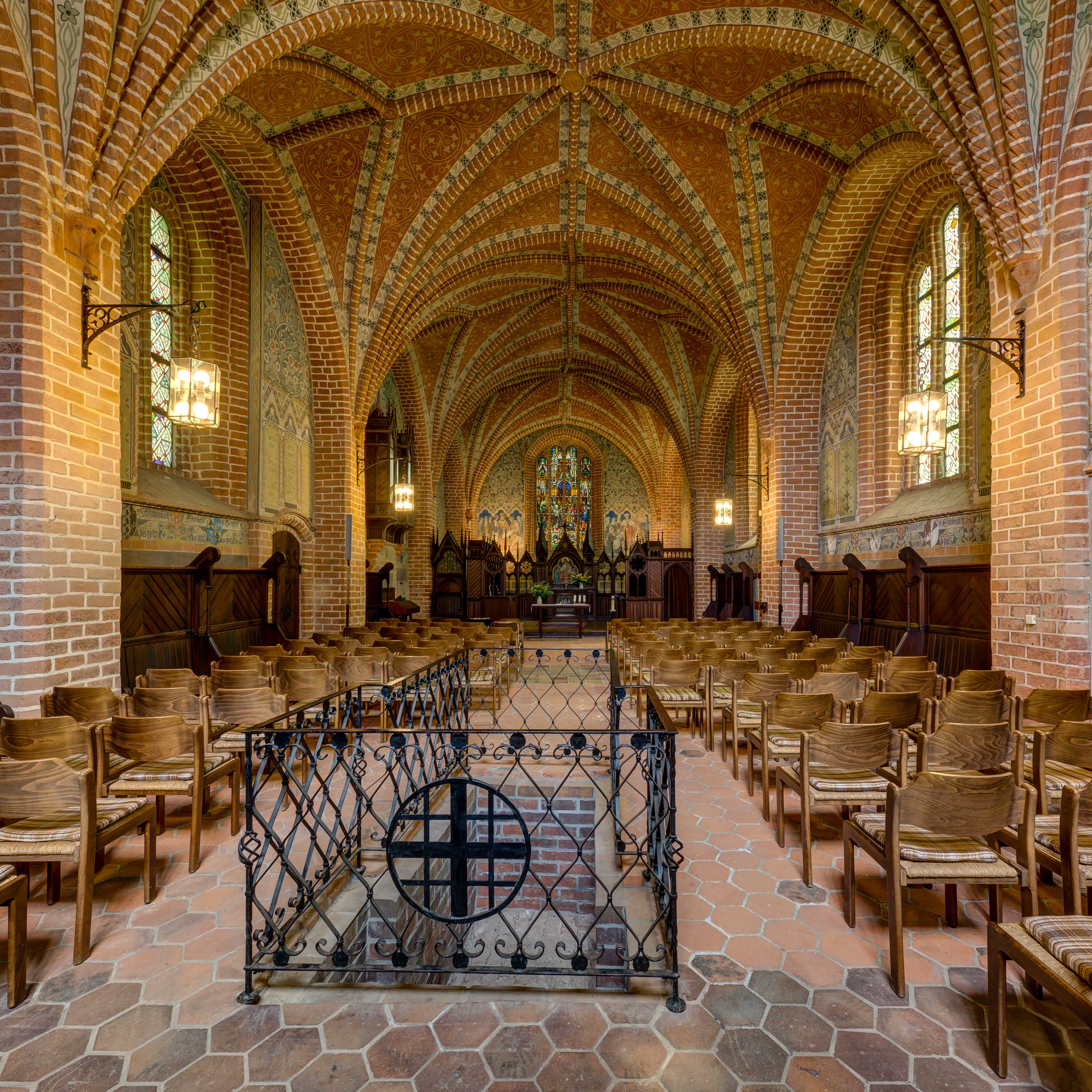 Heiliggrabkapelle, Monastery Endowment of the Holy Grave, Heiligengrabe, Brandenburg, Germany